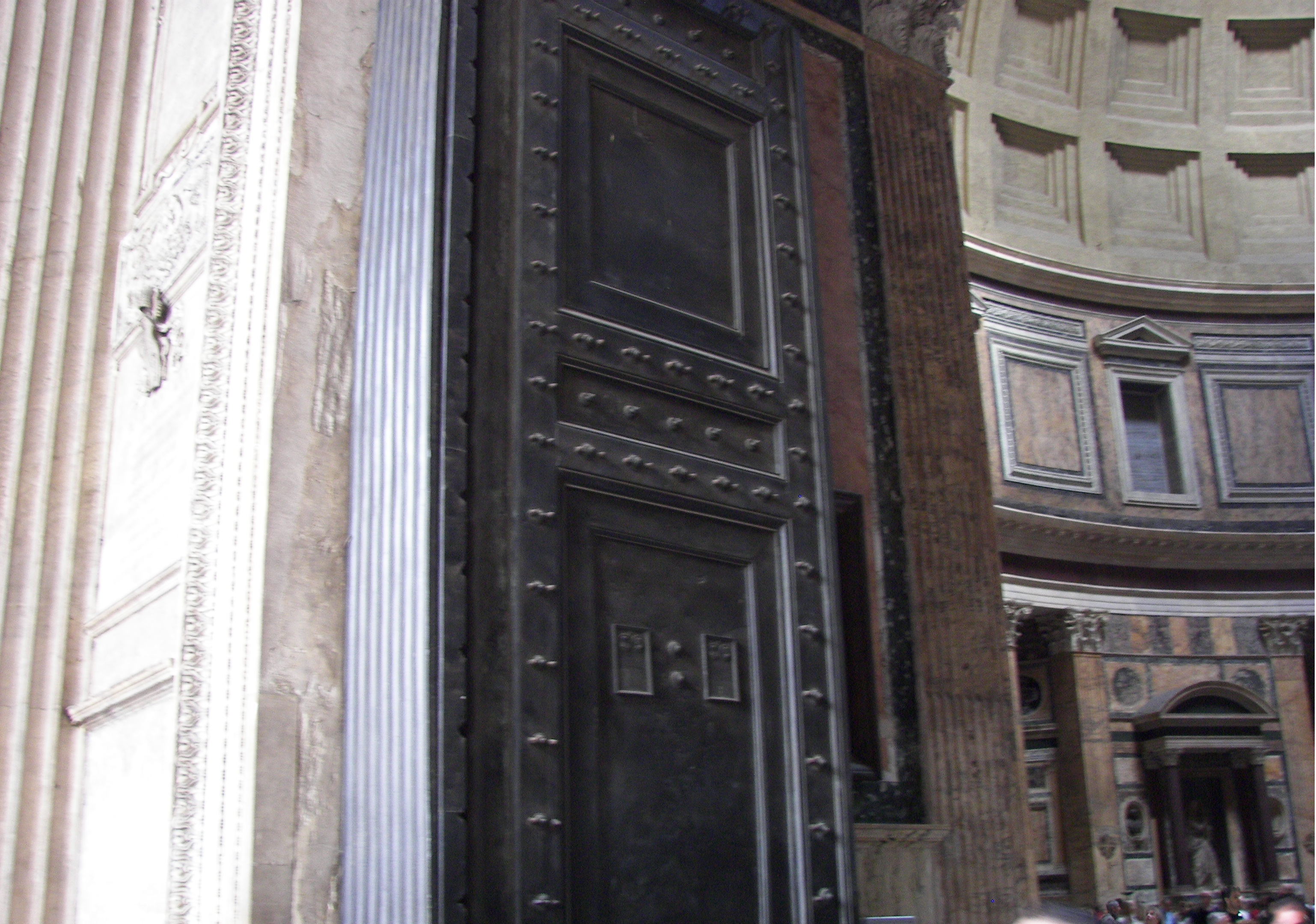 Entrance door for the Pantheon in Rome.